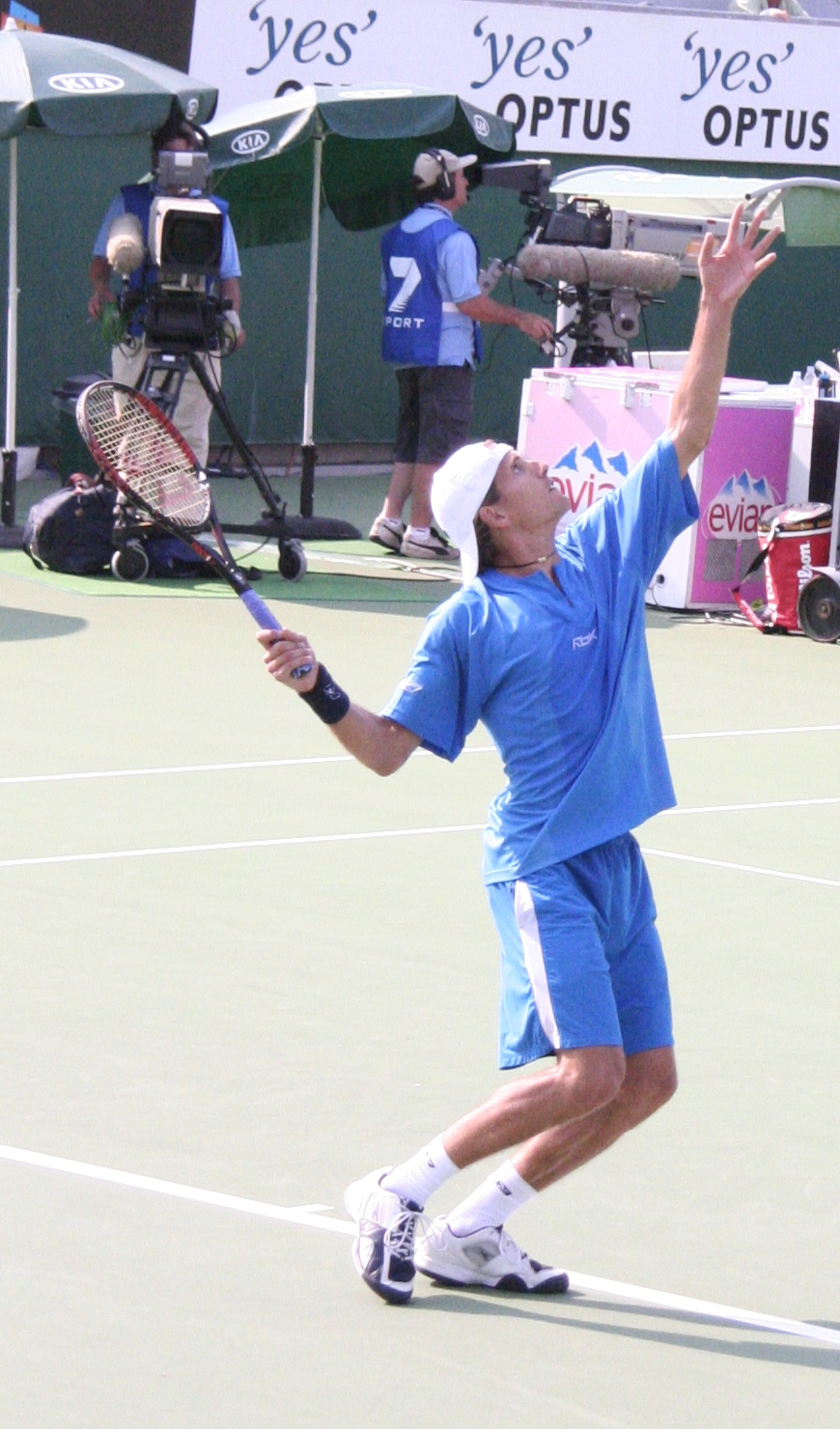 Ruben Ramirez Hidalgo at their first-round match of the 2007 Australian Open.